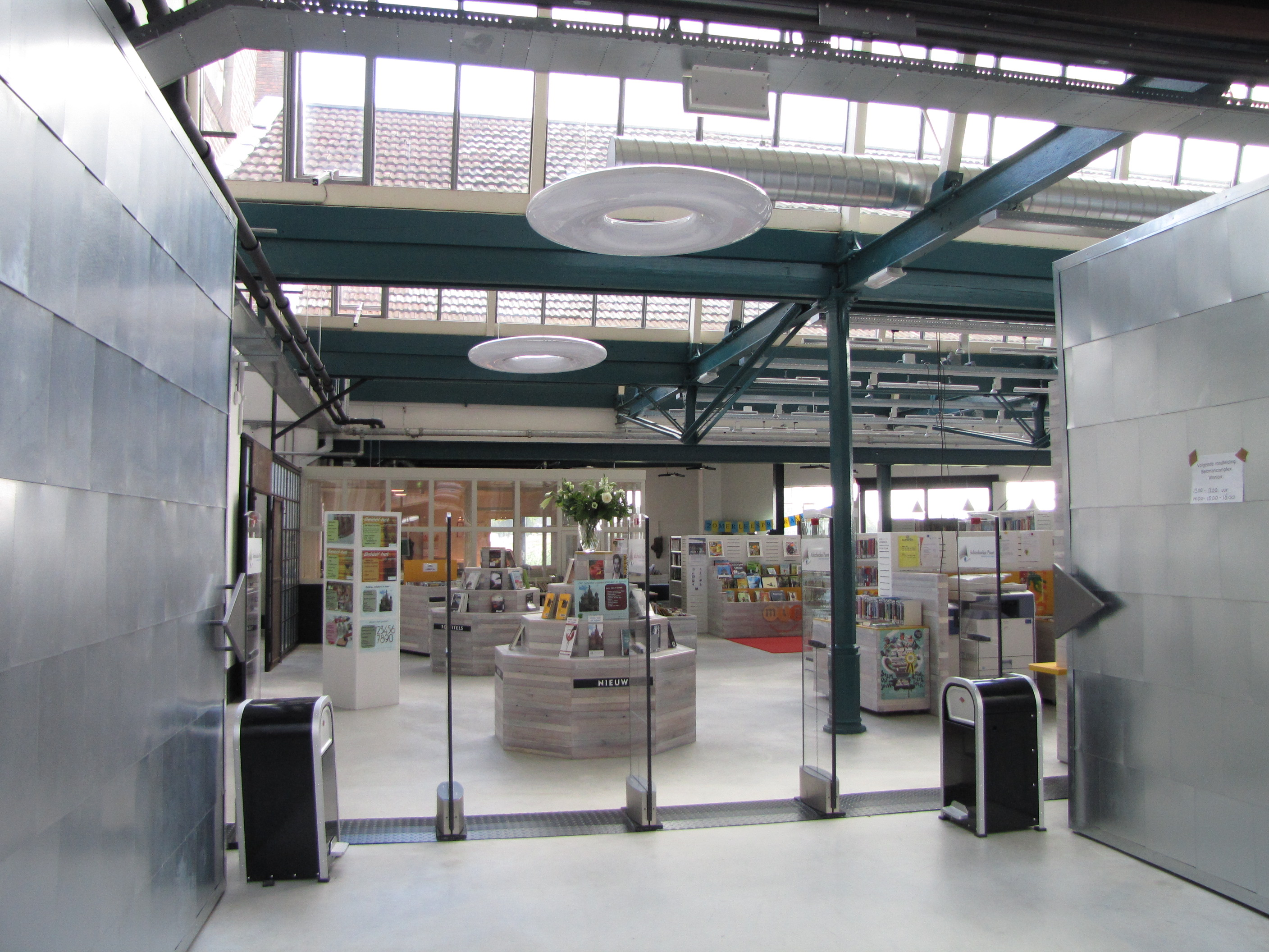 DRU Ulft: bibliotheek.